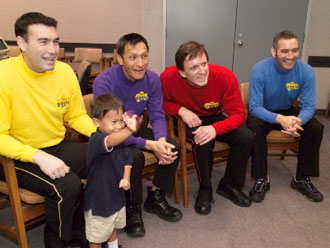 The Wiggles (seated left to right: Greg Page, Jeff Fatt, Murray Cook, and Anthony Field) during a visit to NASA on January 19th, 2004, with Chandra, the son of astronaut Michael Fincke (standing front)